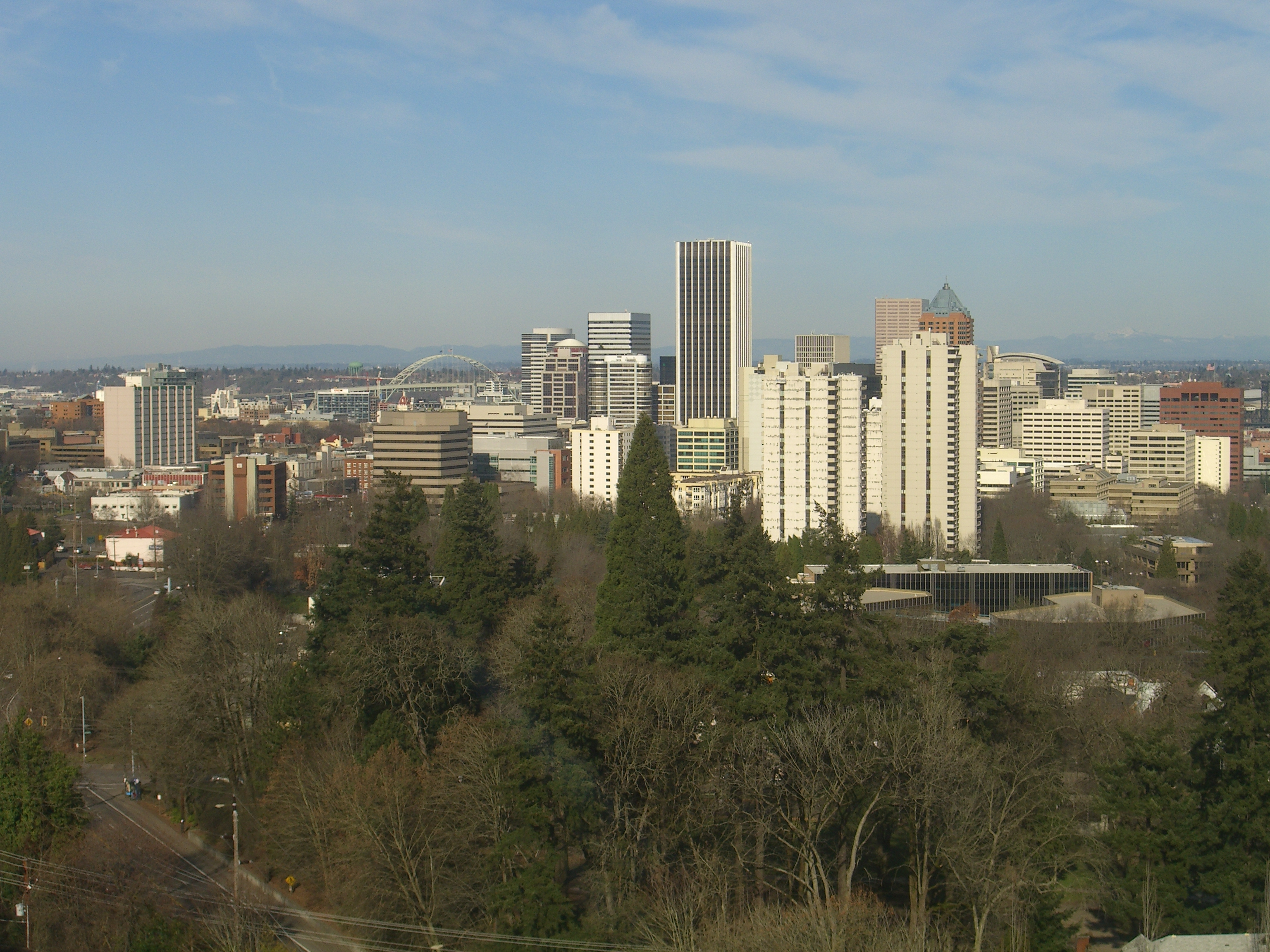 Downtown Portland from the Portland Aerial Tram.